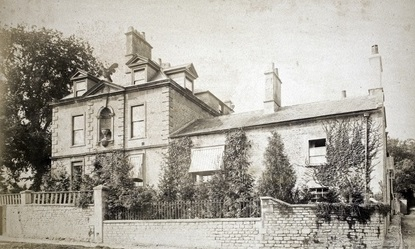 File: Photograph by Colonel Blathwayt. He was the father of Mary Blathwayt and they lived at Eagle House in Somerset.